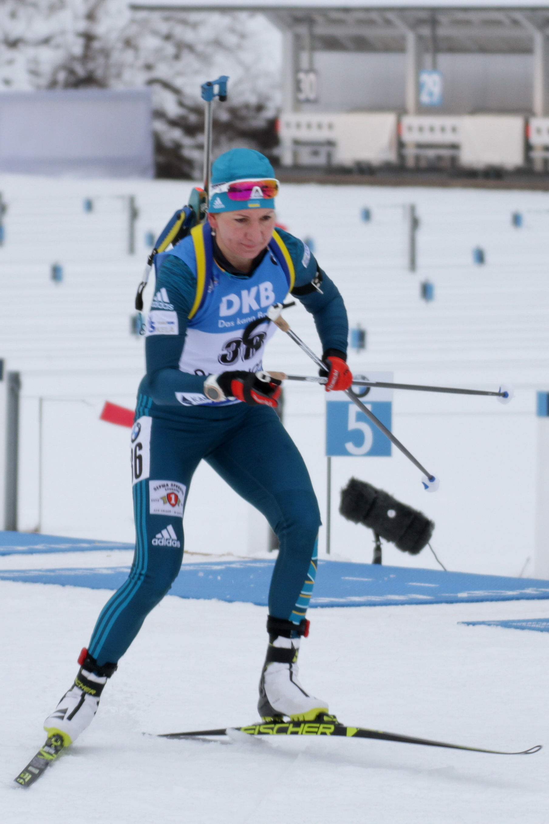 2018 Oberhof Biathlon World Cup - Sprint Women